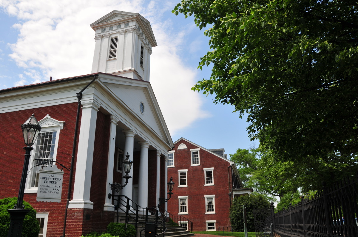 Presbyterian Church, Fredericksburg, Virginia, USA.